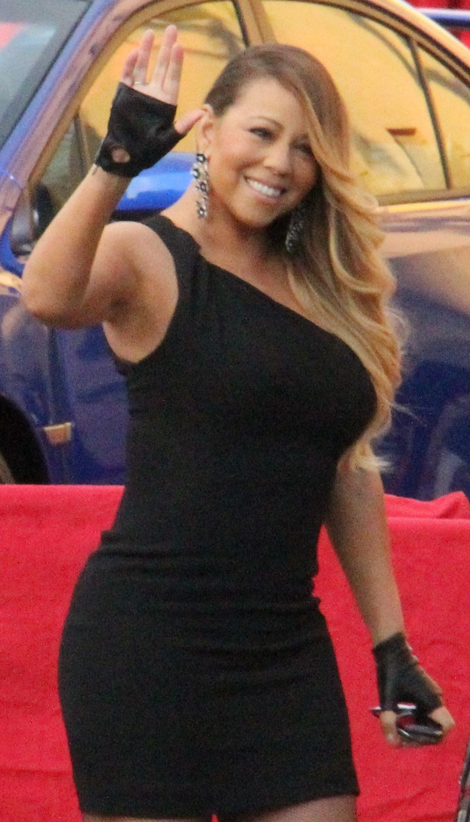 Mariah Carey At The 2014 SAG Awards